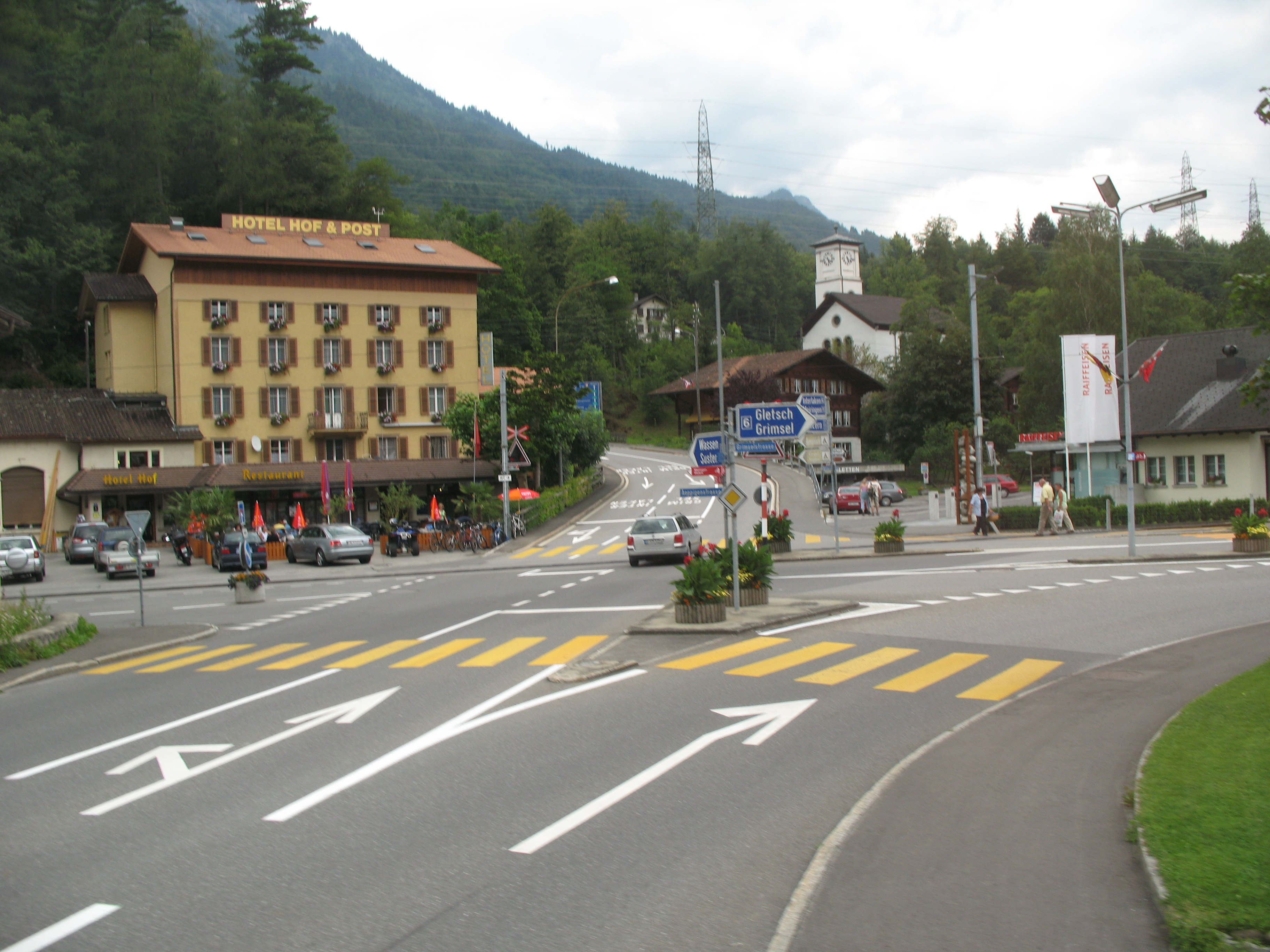 View from the PostBus stop at the Innertkirchen, Switzerland